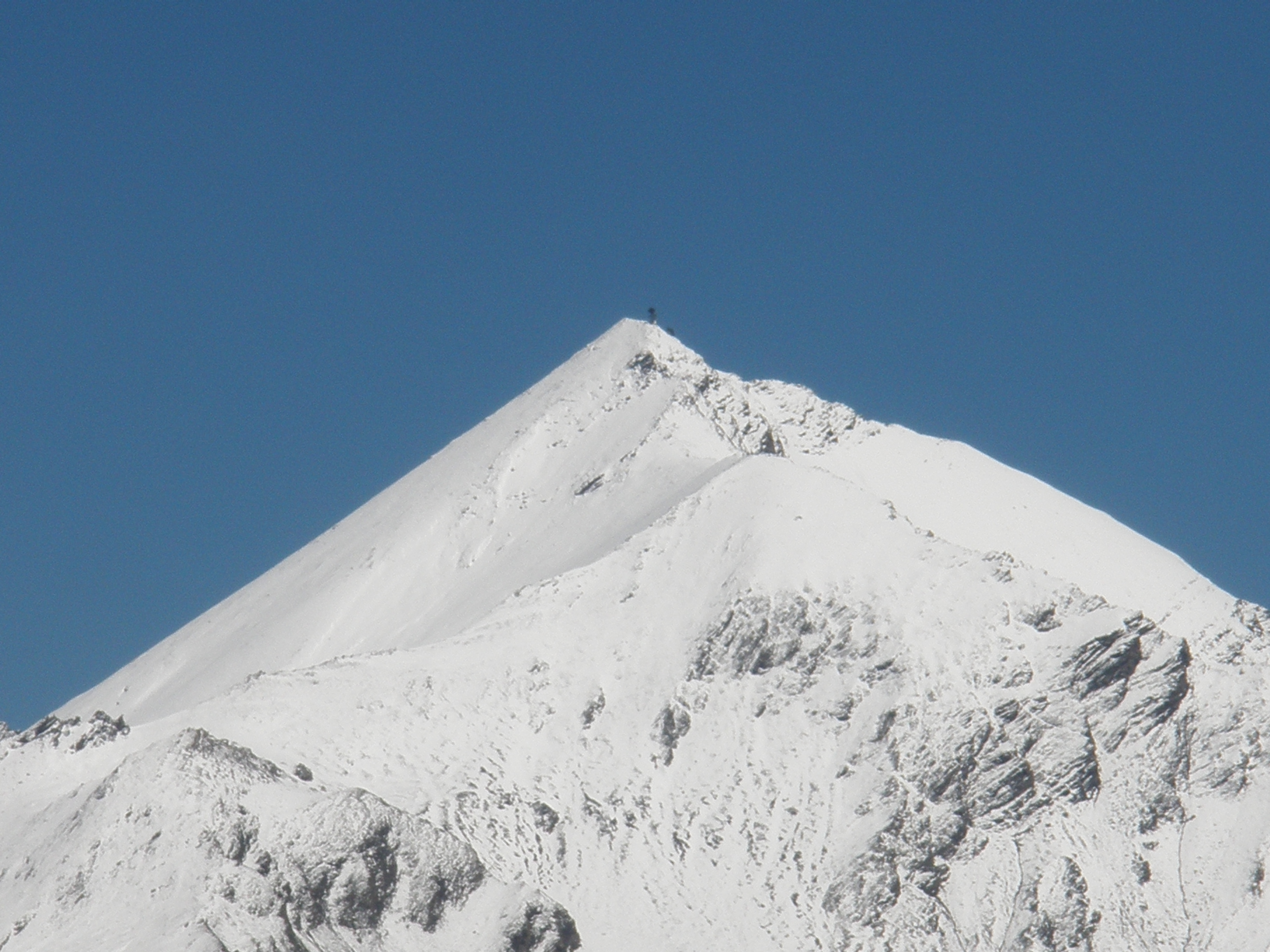 Mount Muttler (3294 m) in Lower Engadin in Graubünden, Switzerland.